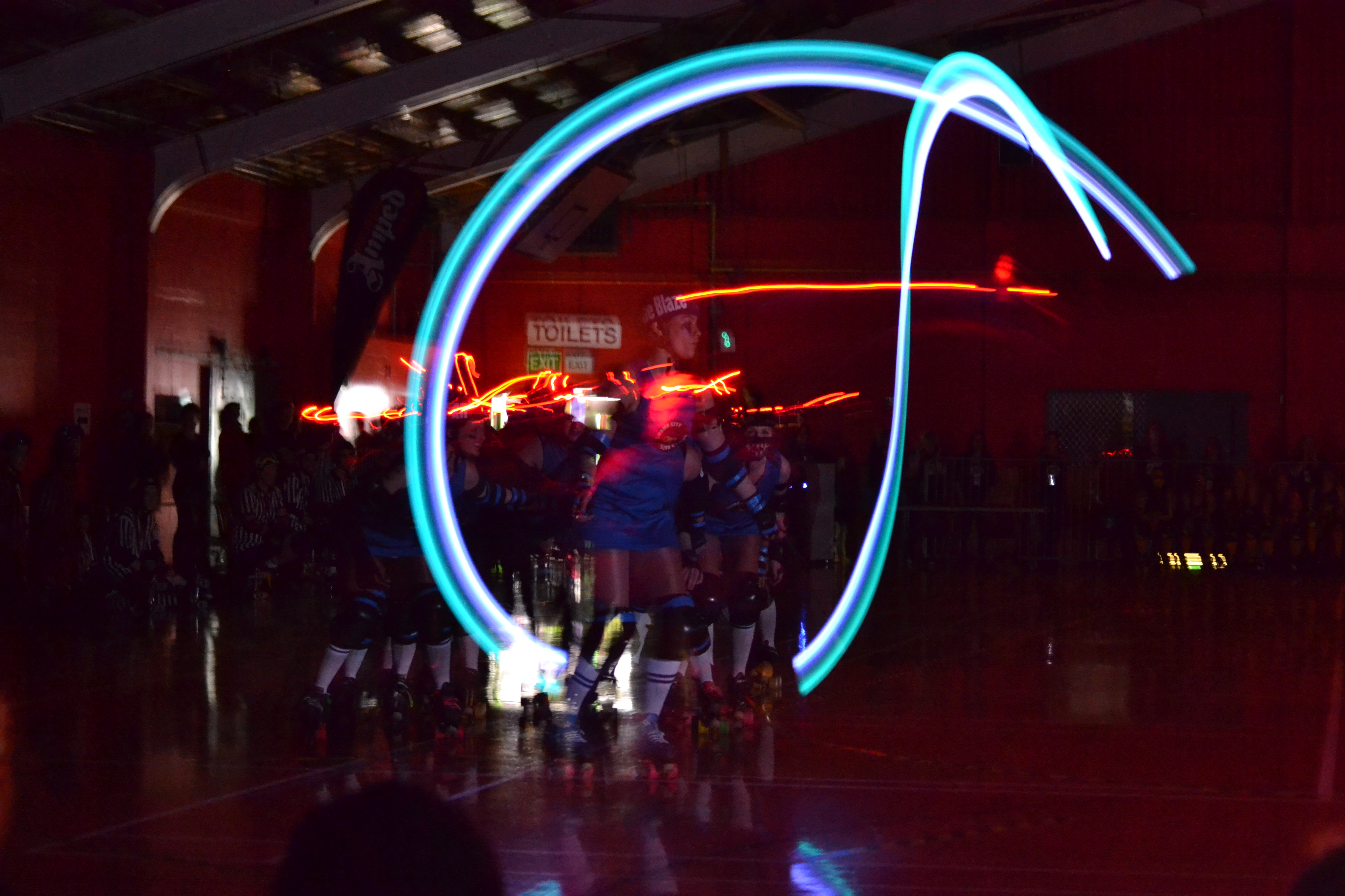 Swamp City Roller Rats make a dramatic entrance to their first home bout, the triple header Grazed Anatomy against the Taranaki Roller Corps Rumble Bees and Richter City Convicts at Arena 3 in Palmerston North.